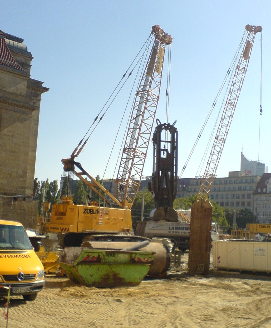 Special excavator for slurry walls at the City tunnel construction site central station of Leipzig